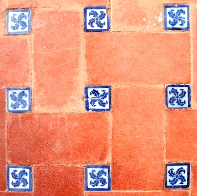 Noble floor of Casa dos Patudos or José Relvas House, designed by Raul Lino da Silva